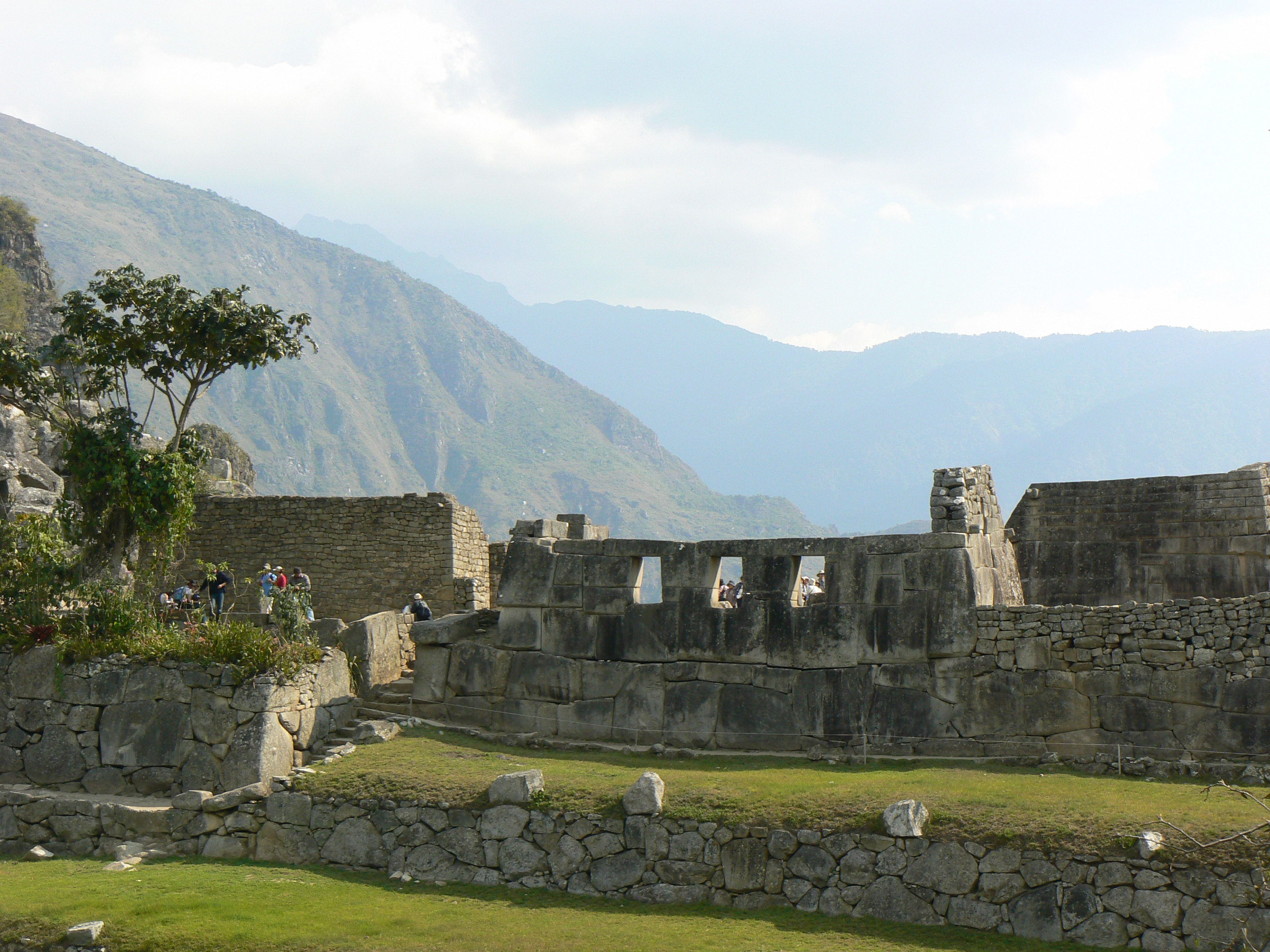 View of the Temple of Three Windows in the lower section of the Inca city of Machu Picchu, Peru.